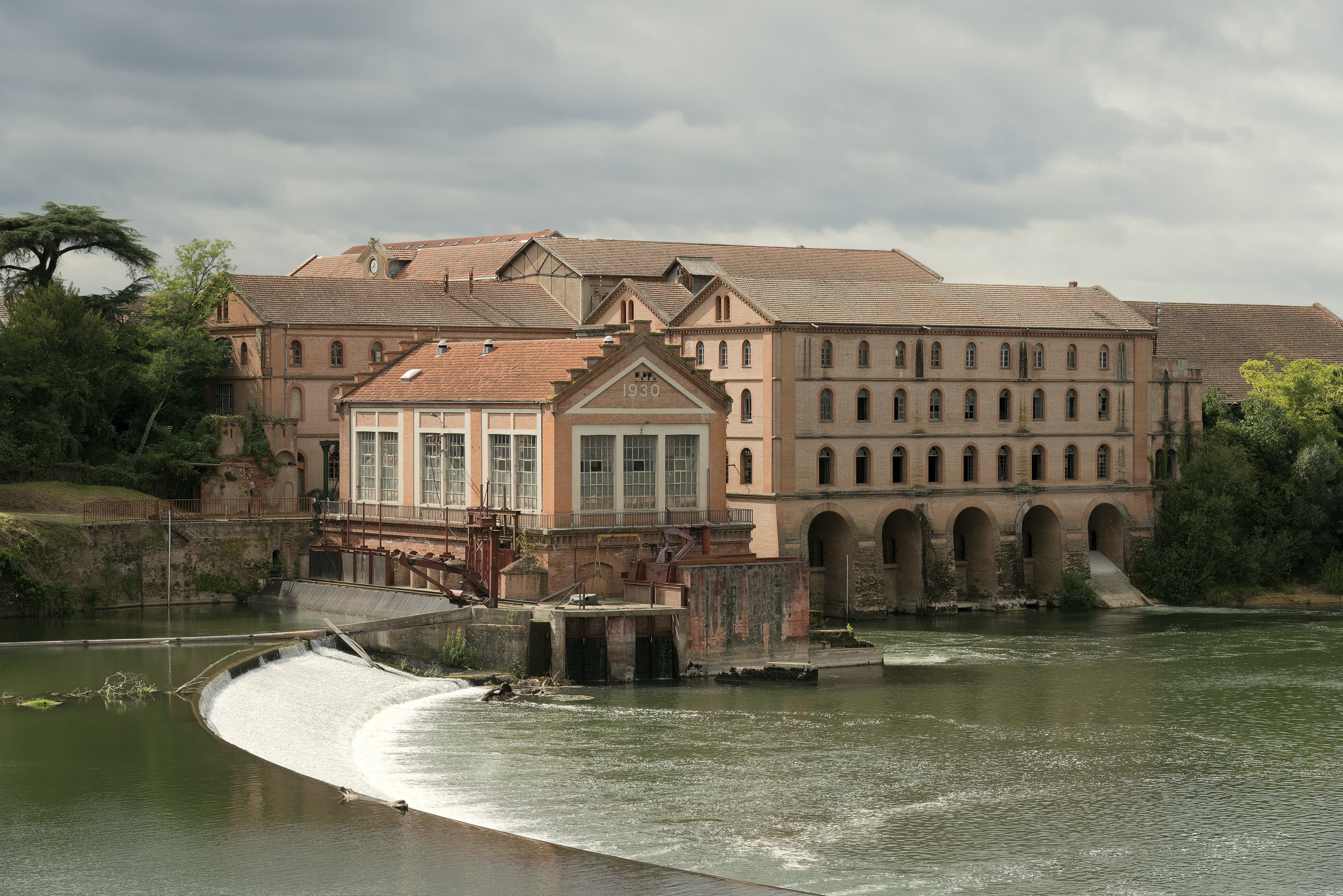 Villemur-sur-Tarn. Old factory pasta "Brusson"